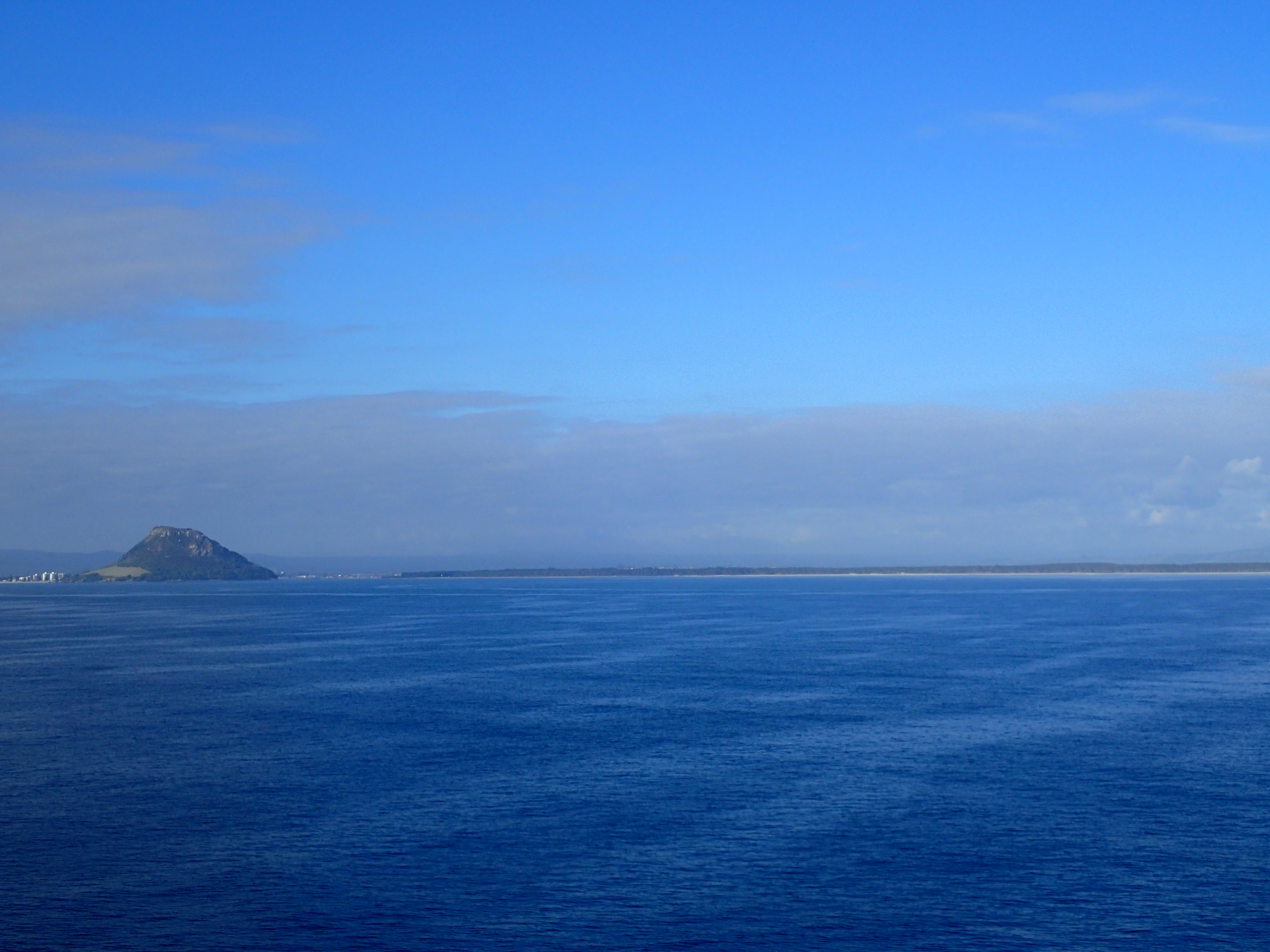 Matakana Island Aotearoa New Zealand from the North ( Open sea) Mauao on the Left, Port and Harbour entrance, then Matakana Island ( Low) on the right